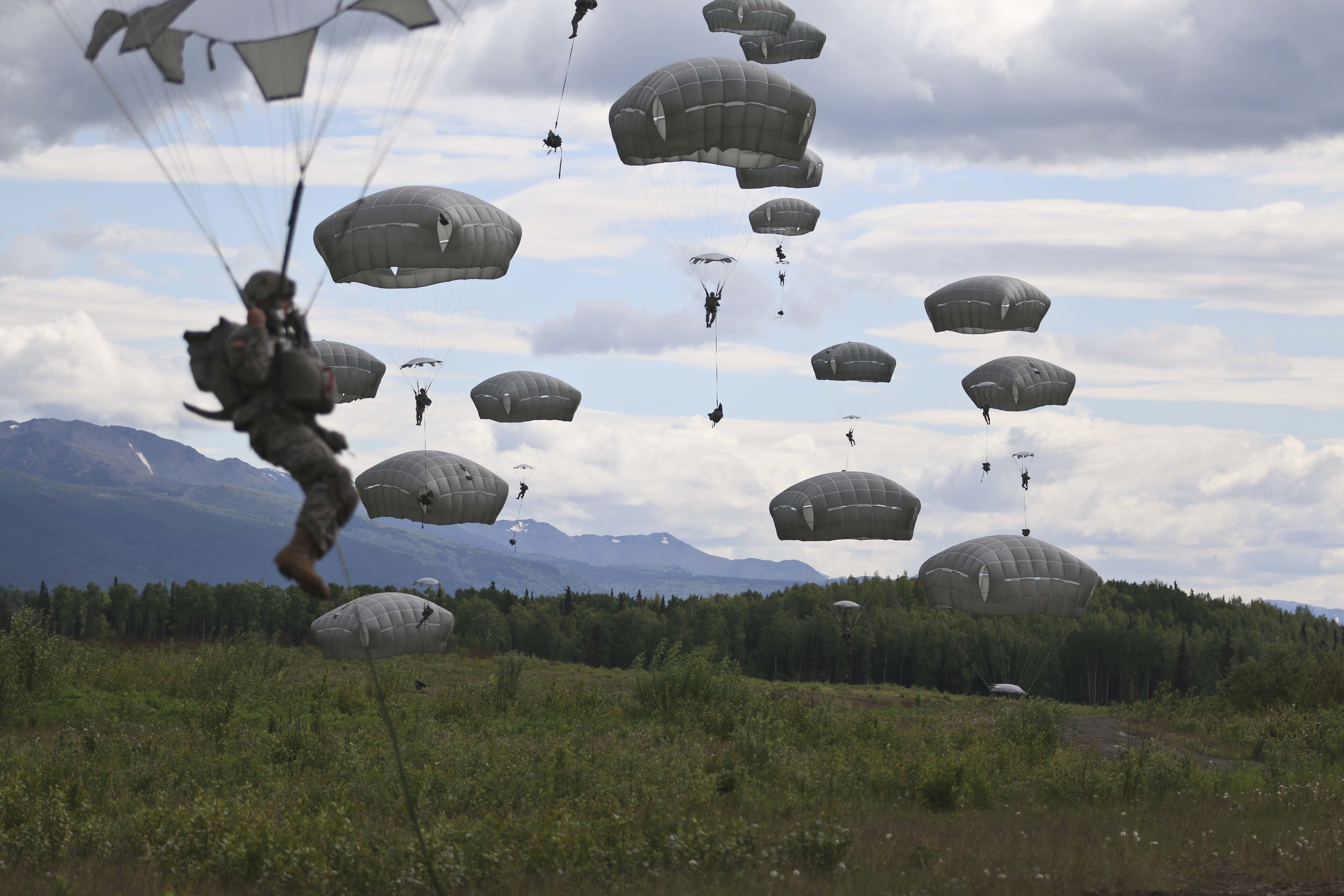 Paratroopers with the 4th Infantry Brigade Combat Team (Airborne), 25th Infantry Division perform an airborne proficiency operation on Malemute Drop Zone at Joint Base Elmendorf-Richardson, Alaska during Exercise Arctic Aurora June 3, 2016. Arctic Aurora is a yearly bilateral training exercise involving elements of the Spartan Brigade and the JGSDF, which focuses on strengthening ties between the two by executing combined small unit airborne proficiency operations and basic small arms marksmanship. (U.S. Army photo by Staff Sgt. Brian Ragin) Unit: United States Army Alaska